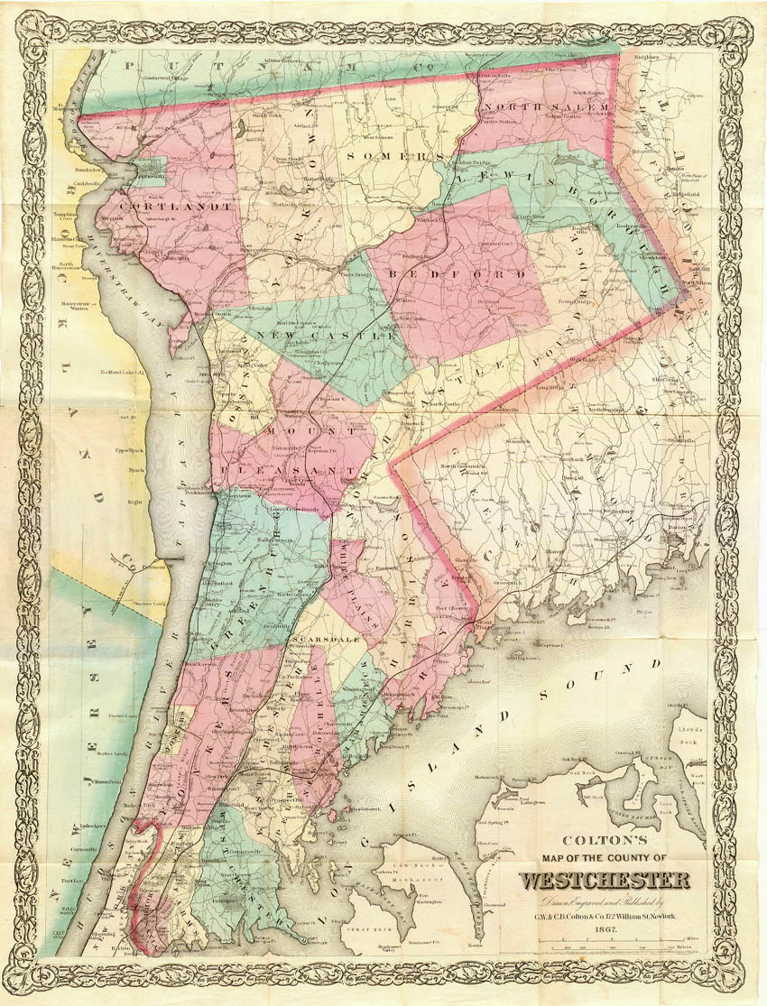 Originally published by G.W. & C.B. Colton & Co., 172 William St, New York, 1867 Summary Colton's Map of the County of Westchester, from 1867